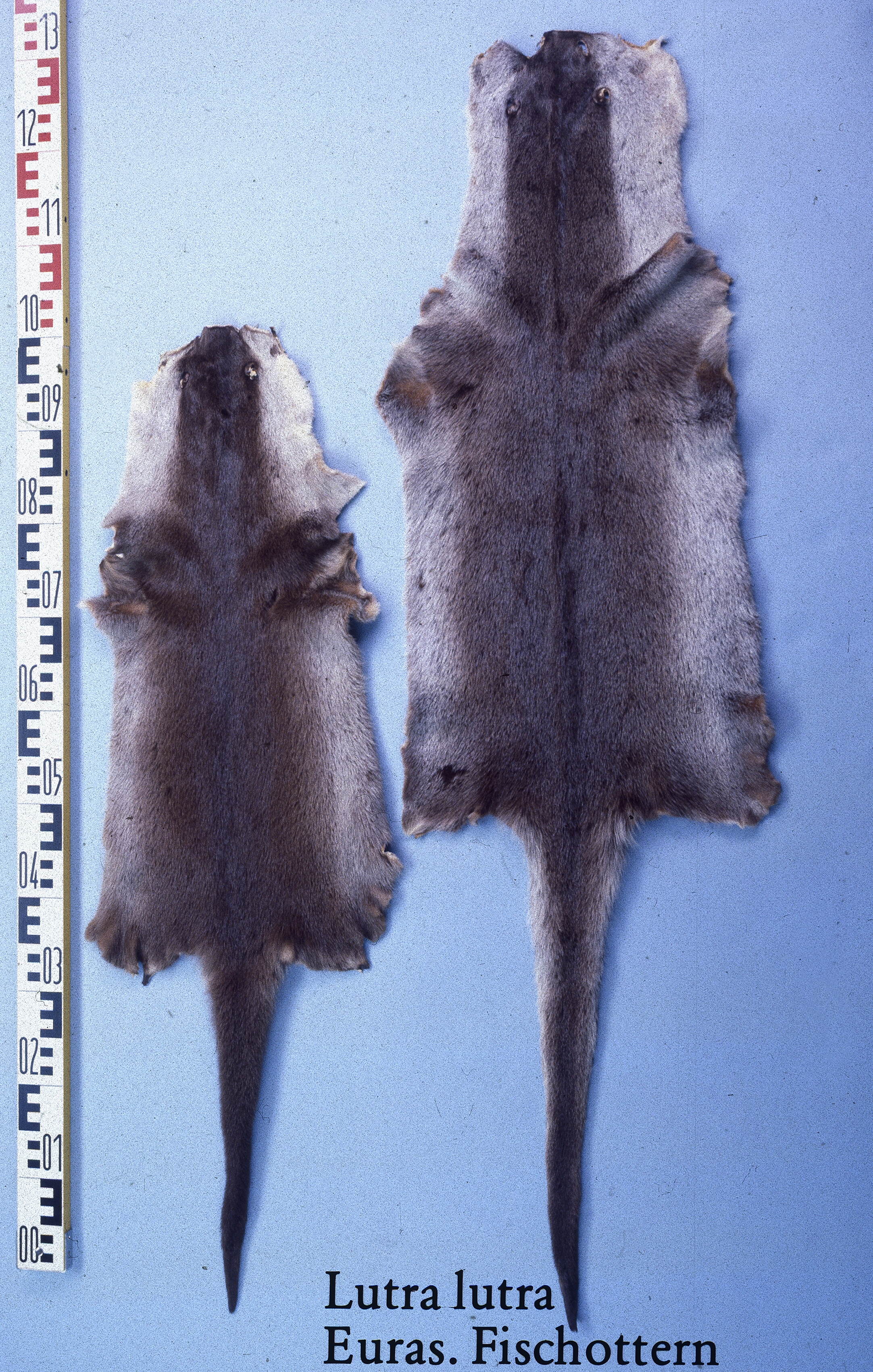 Common otter fur skins (Lutra lutra), Eurasia. Fur skin collection, Bundes-Pelzfachschule, Frankfurt/Main, Germany